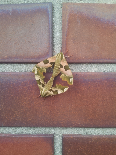 Mating Lime Hawk-moth